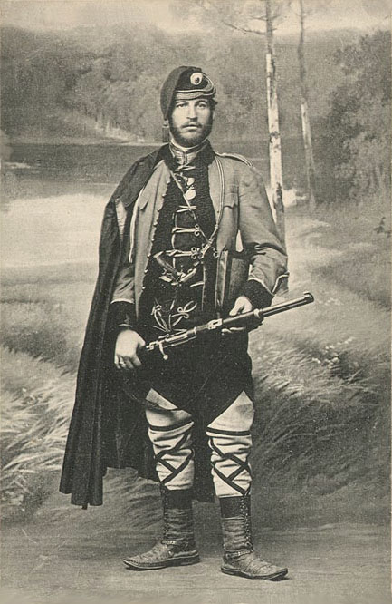 Serbian Chetnik commander Đorđe Skopljanče. Photo taken between 1905 and 1908.